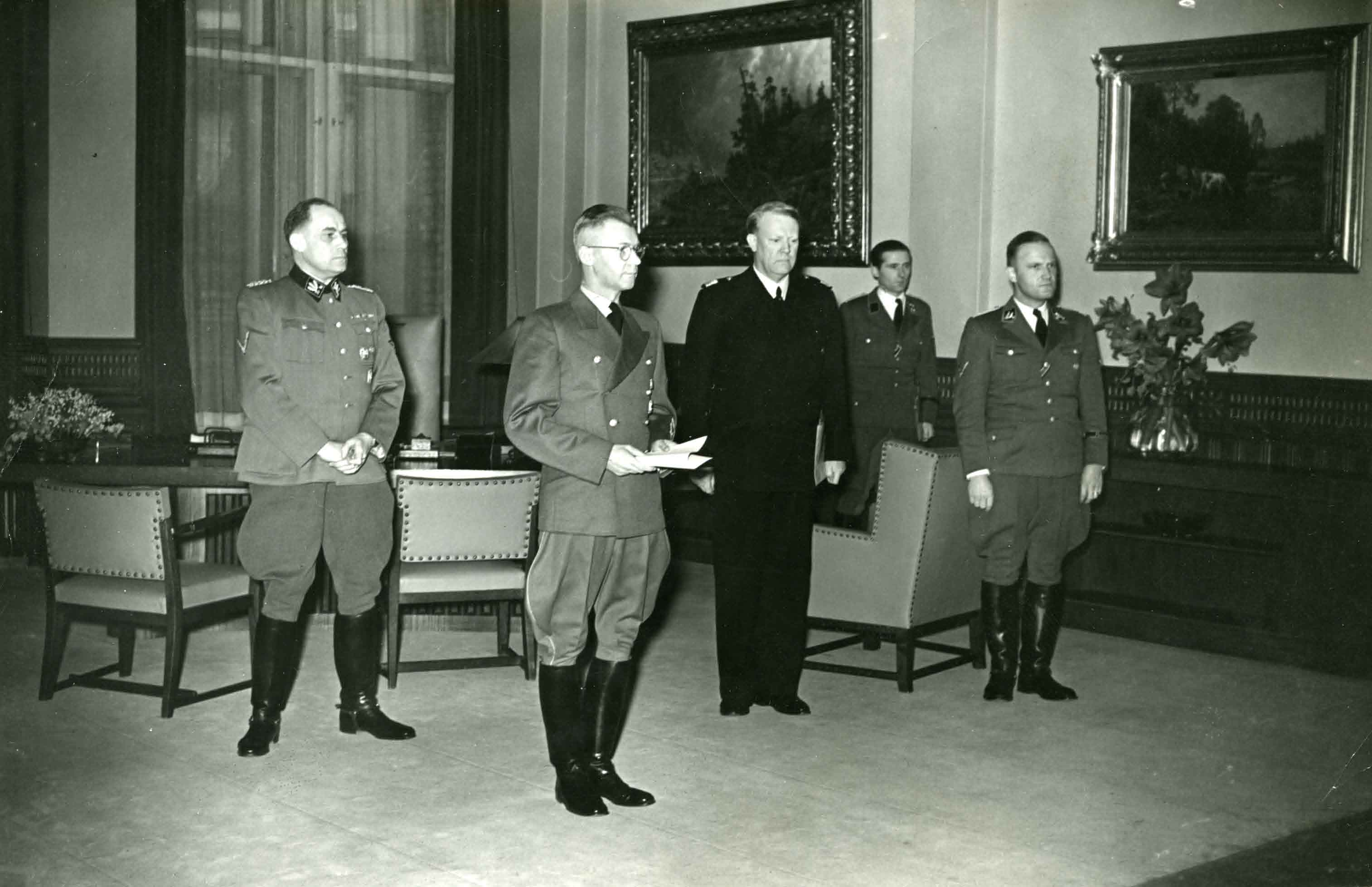 Wilhelm Rediess, Josef Terboven, Vidkun Quisling, Rudolf Schiedermair, and Paul Wegener in Oslo, Norway on February 1st 1942